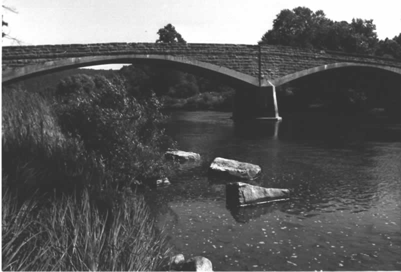 Side of the Bridge between Madison and Mahoning Townships, which carries Legislative Route 03178 over Mahoning Creek near Deanville in Madison and Mahoning Townships, Armstrong County, Pennsylvania, United States. Built in 1895, this solid spandrel stone arch bridge is listed on the National Register of Historic Places.